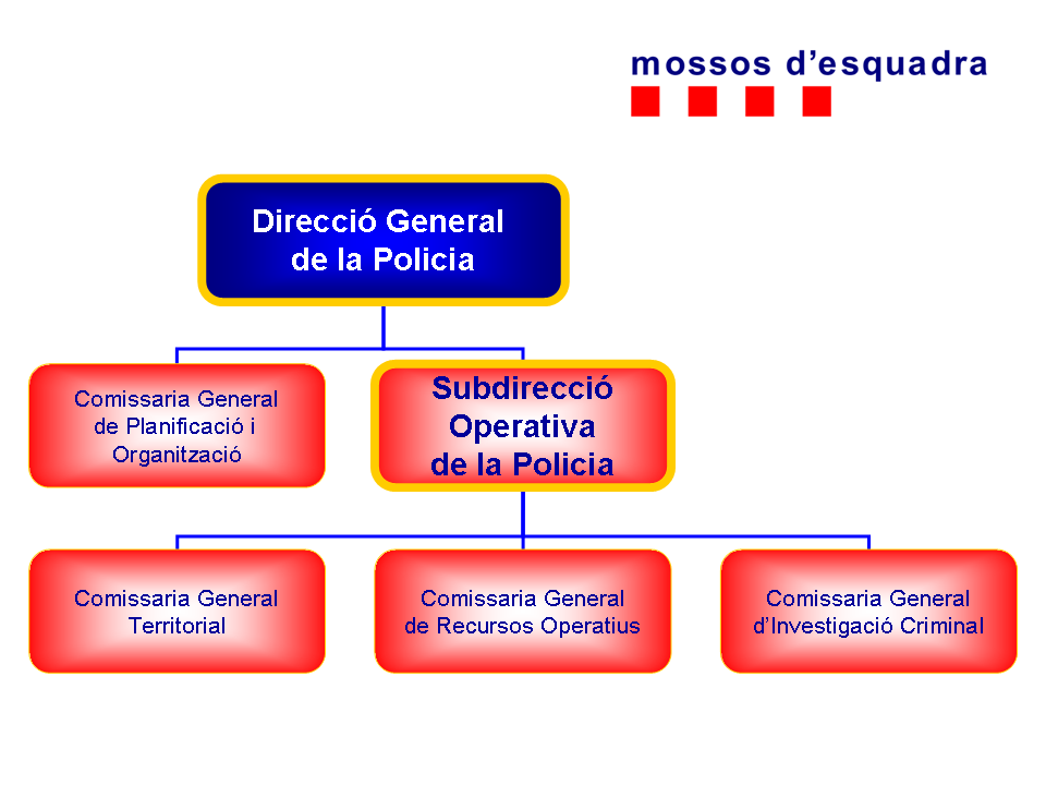 Simplified organizational body of the Police of the Generalitat - Mossos d'Esquadra